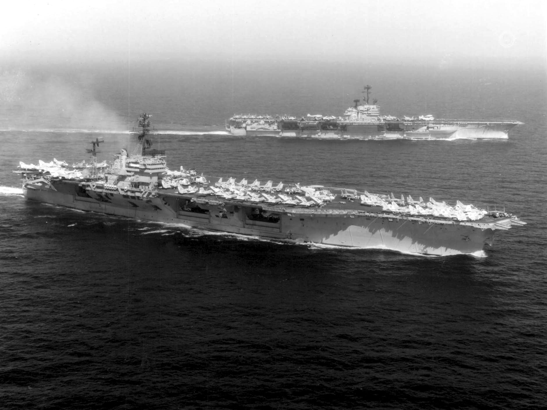 The U.S. Navy aircraft carriers USS America (CVA-66), foreground, and USS Ranger (CVA-61) underway in the Gulf of Tonkin in January 1973. Ranger, with assigned Carrier Air Wing 2 (CVW-2), was deployed to Vietnam from 16 November 1972 to 22 June 1973. America, with assigned Carrier Air Wing 8 (CVW-8), was deployed to Vietnam from 5 June 1972 to 24 March 1973.